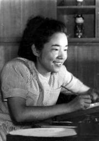 Machiko Hasegawa 30 years old in 1950